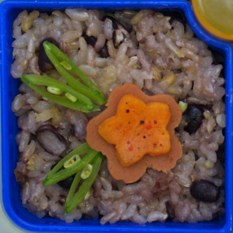 Kong bap